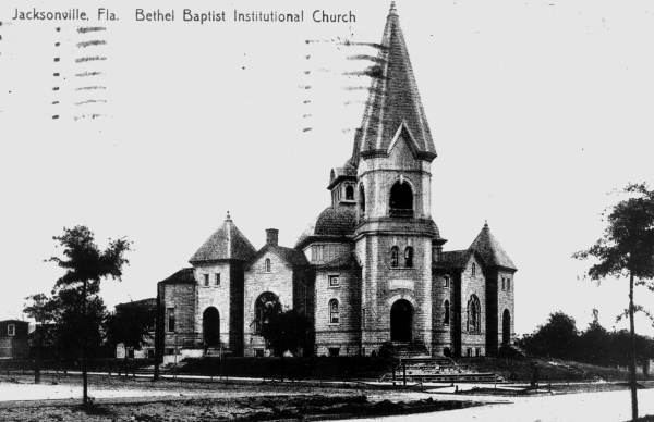 Bethel Baptist Church around 1911 in Jacksonville, Florida.